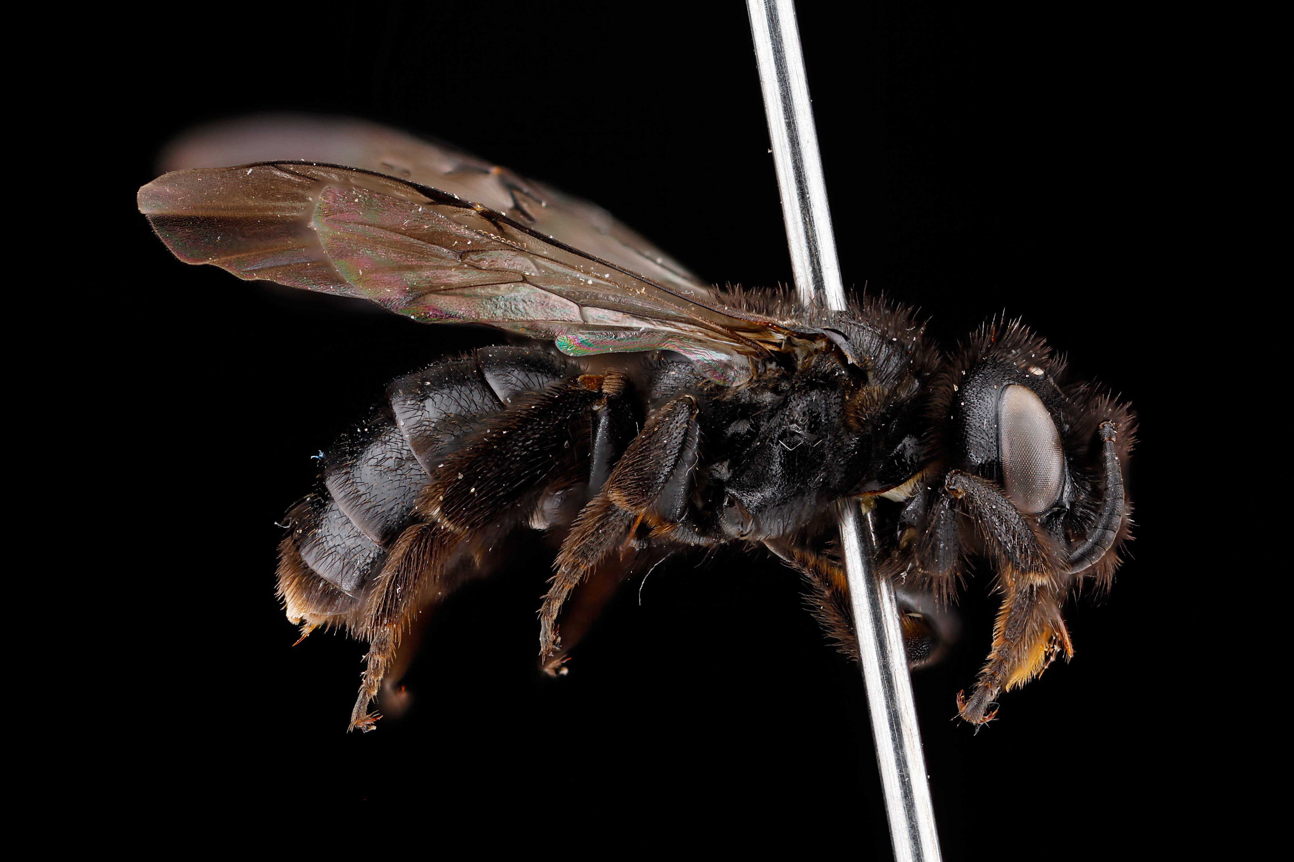 Dufourea maura, female, Isle Royale, Michigan